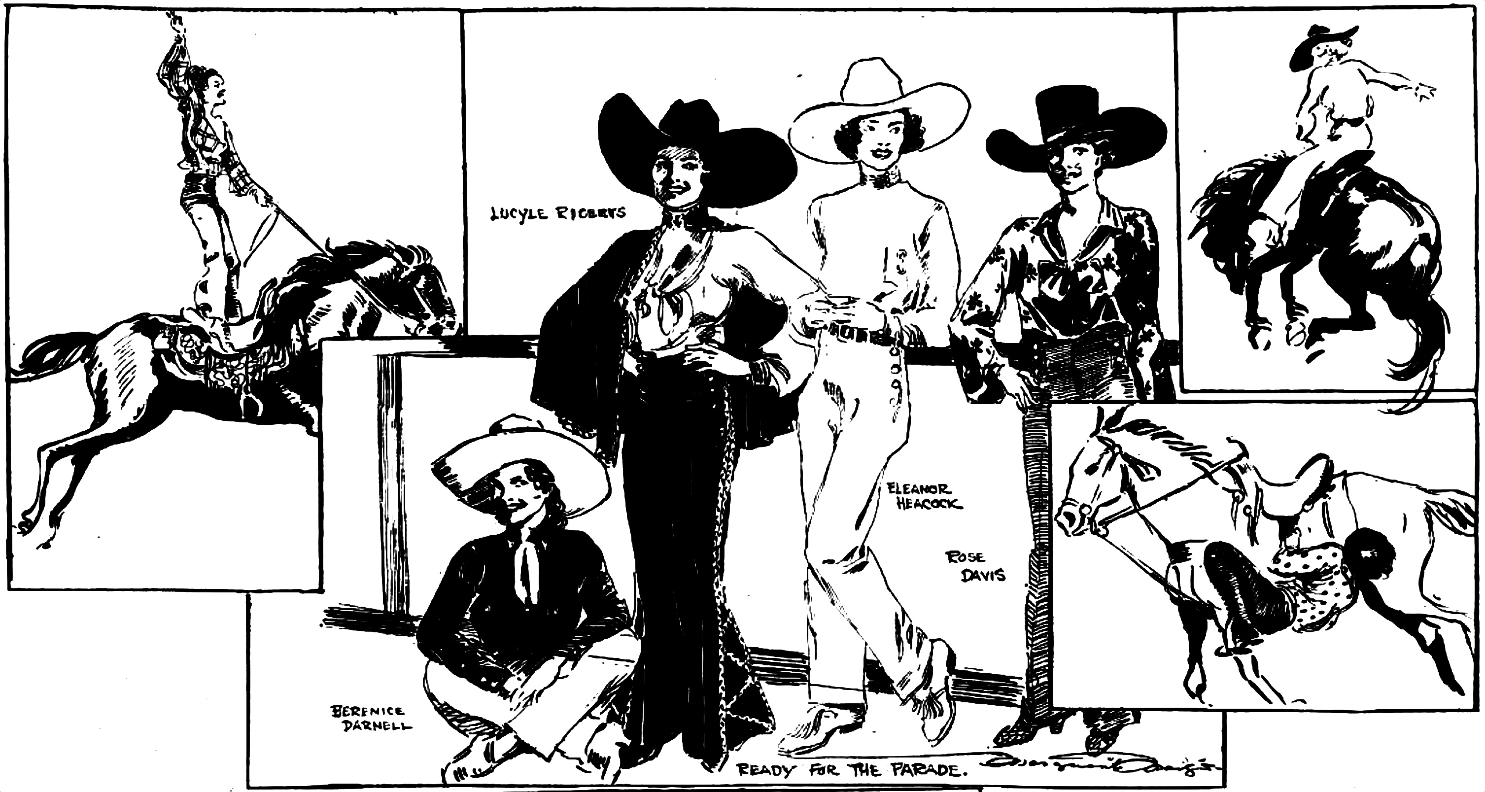 Panel of four women rodeo riders drawn by Marguerite Martyn, 1933. Left to right, they are Berenice Darnell, Lucyle Richards, Eleanor Heacock, and Rose Davis.